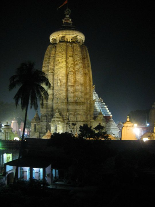 Jagannath at Puri during night